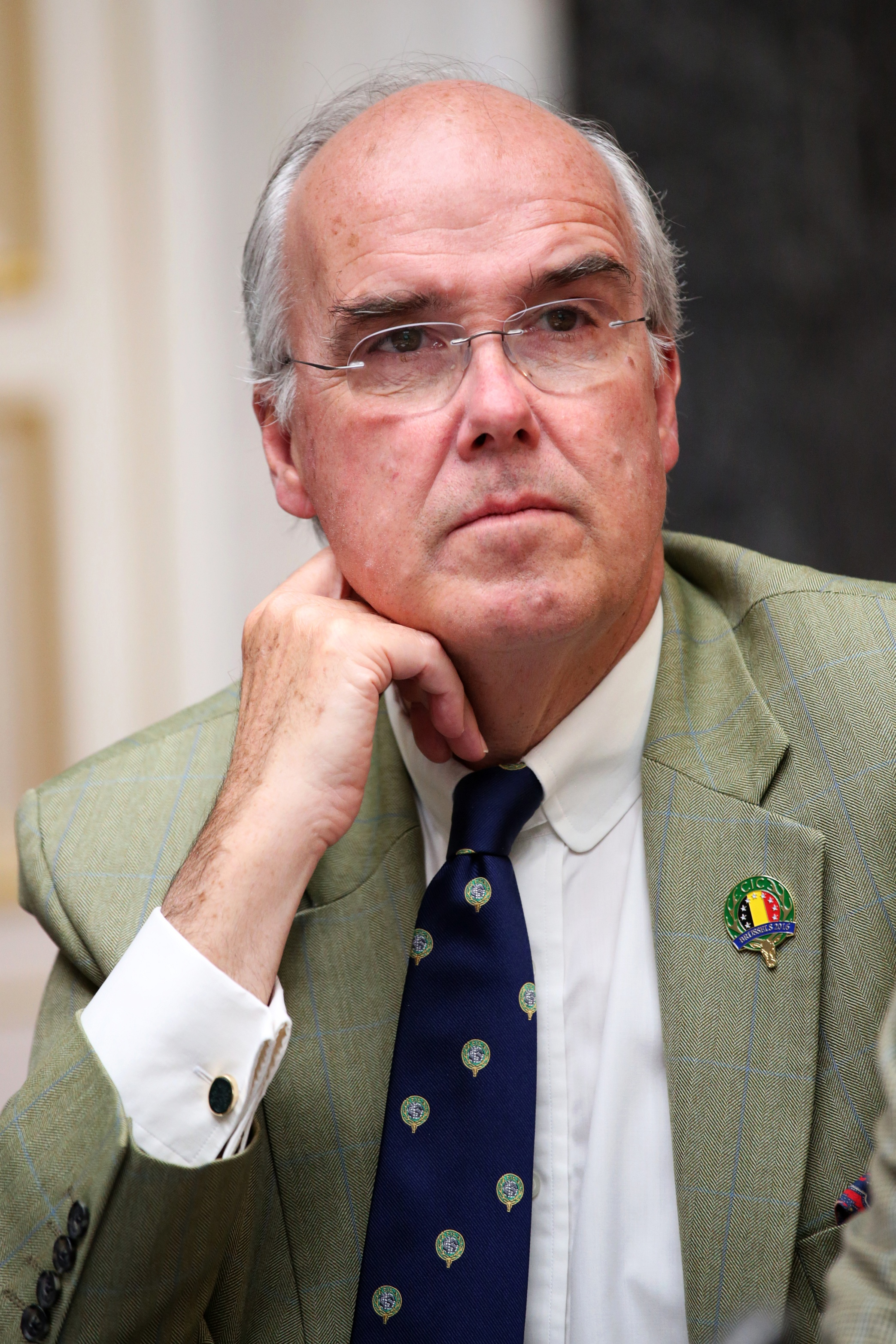 Since 2016